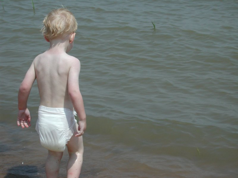 A child is standing by the water.